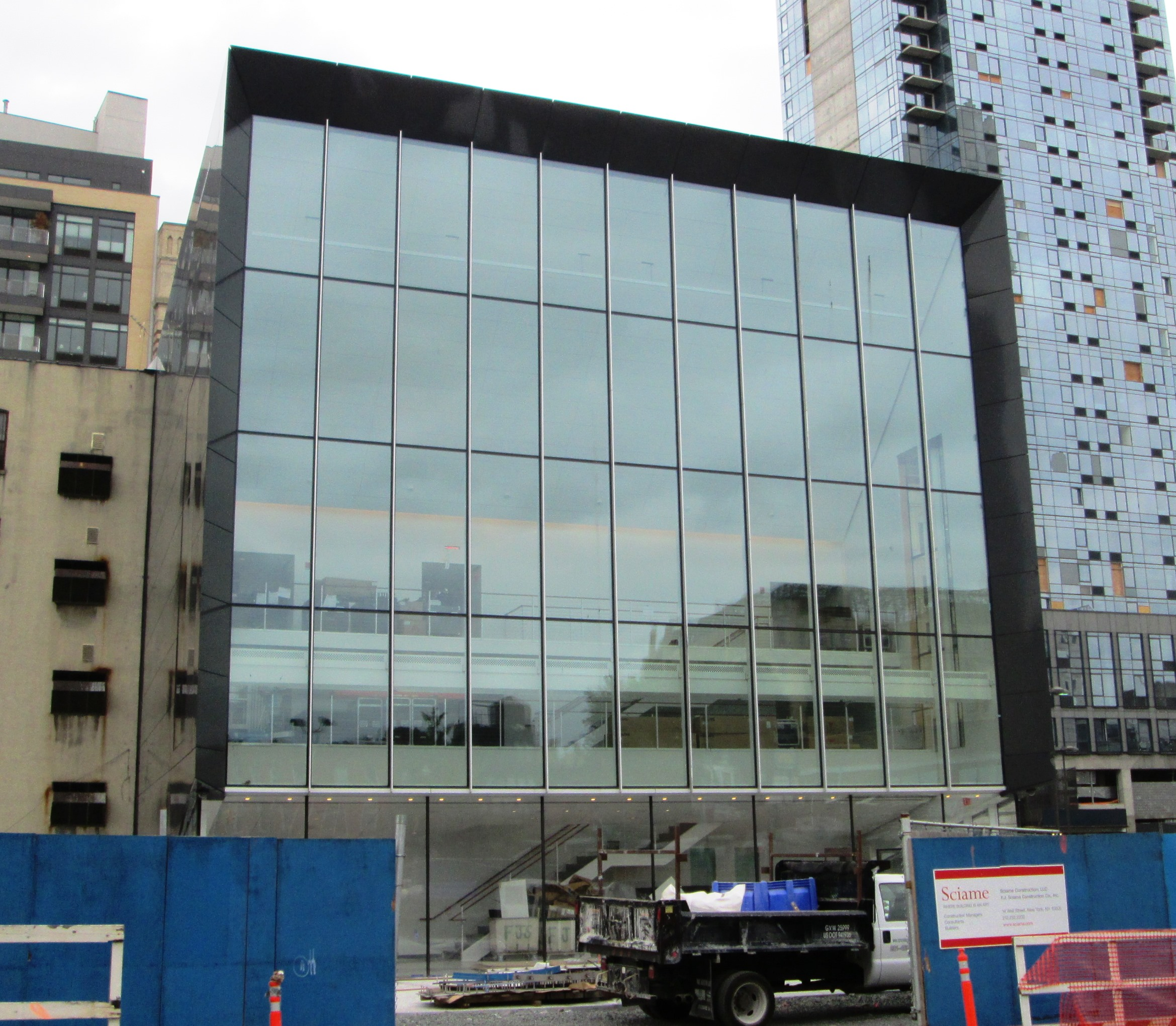 The Theatre for a New Audience's Polonsky Shakespeare Center, located at 262 Ashland Place between Lafayette Avenue and Fulton Street in the Fort Greene neighborhood of Brooklyn, New York City, is scheduled to open in Fall 2013. Ground was broken for the building, which was designed by Hugh Hardy/H3 Hardy Collaboration, in 2011. It is owned by New York City and is leased back to Theatre for a New Audience, which was founded in 1979 by Jeffrey Horovitz, has never had a permanent home. (Sources: [1], [2], [3] and [4])